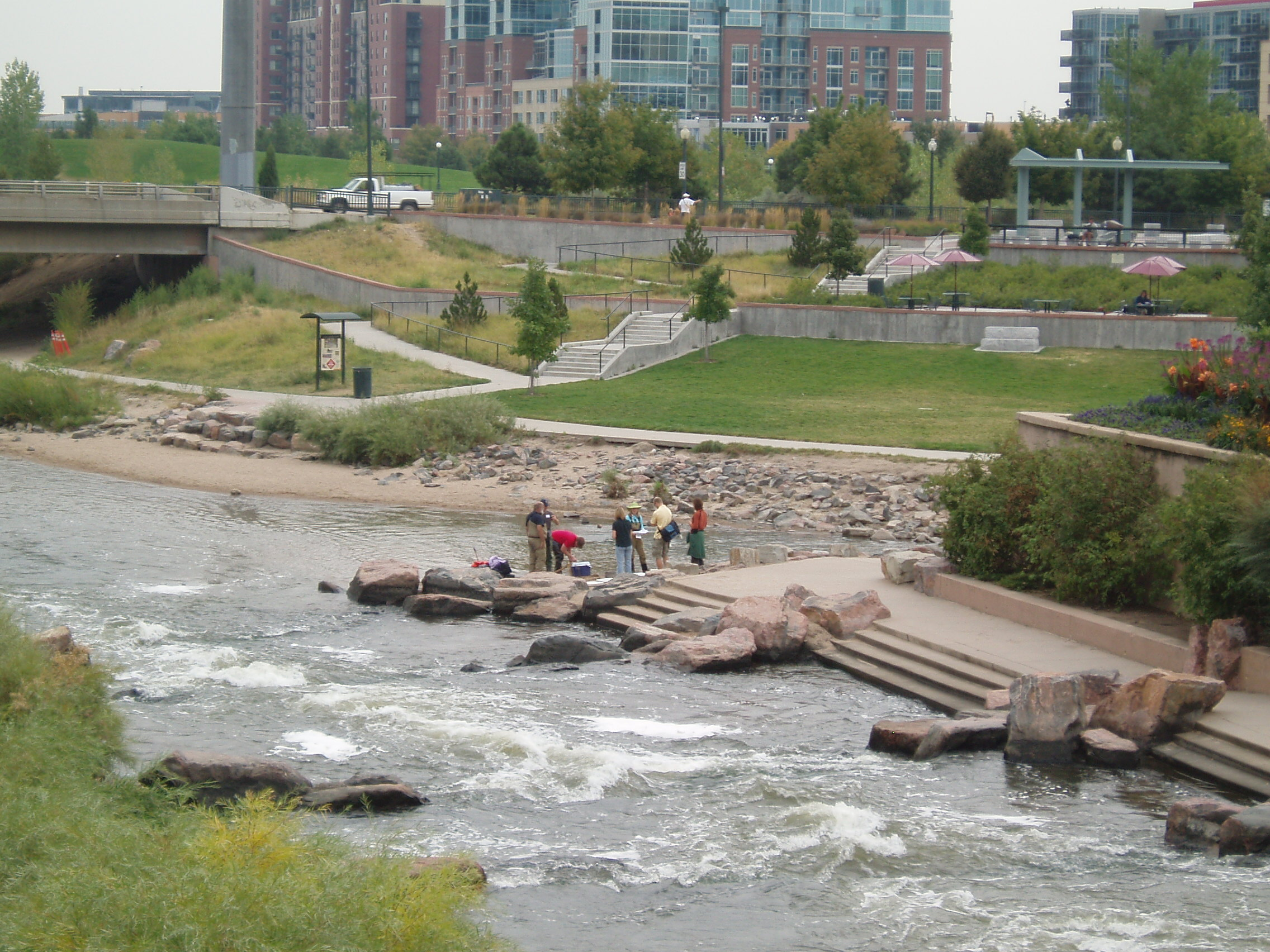 Volunteers from the United States Environmental Protection Agency geared up in their official water sampling gear to show students how they do their jobs. To find out more about water sampling and monitoring visit